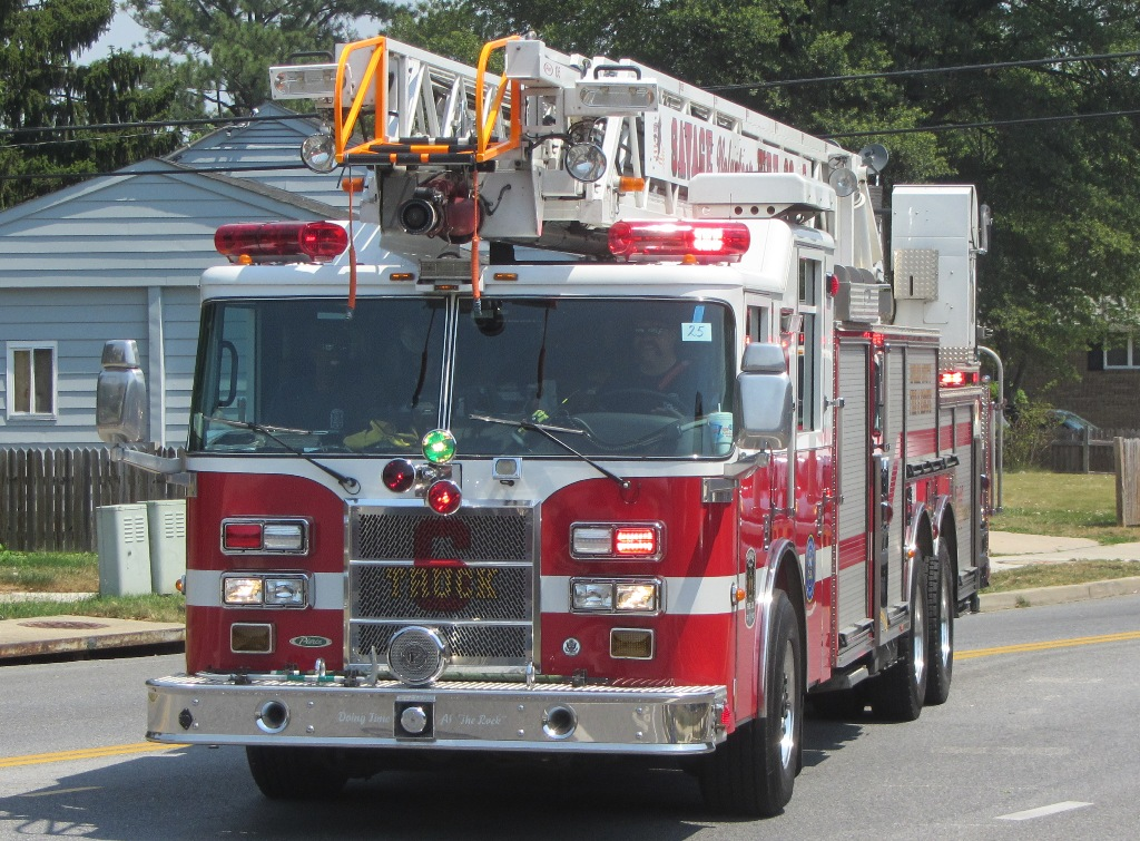 Savage Maryland Station 6 Vol Fire Department Tower